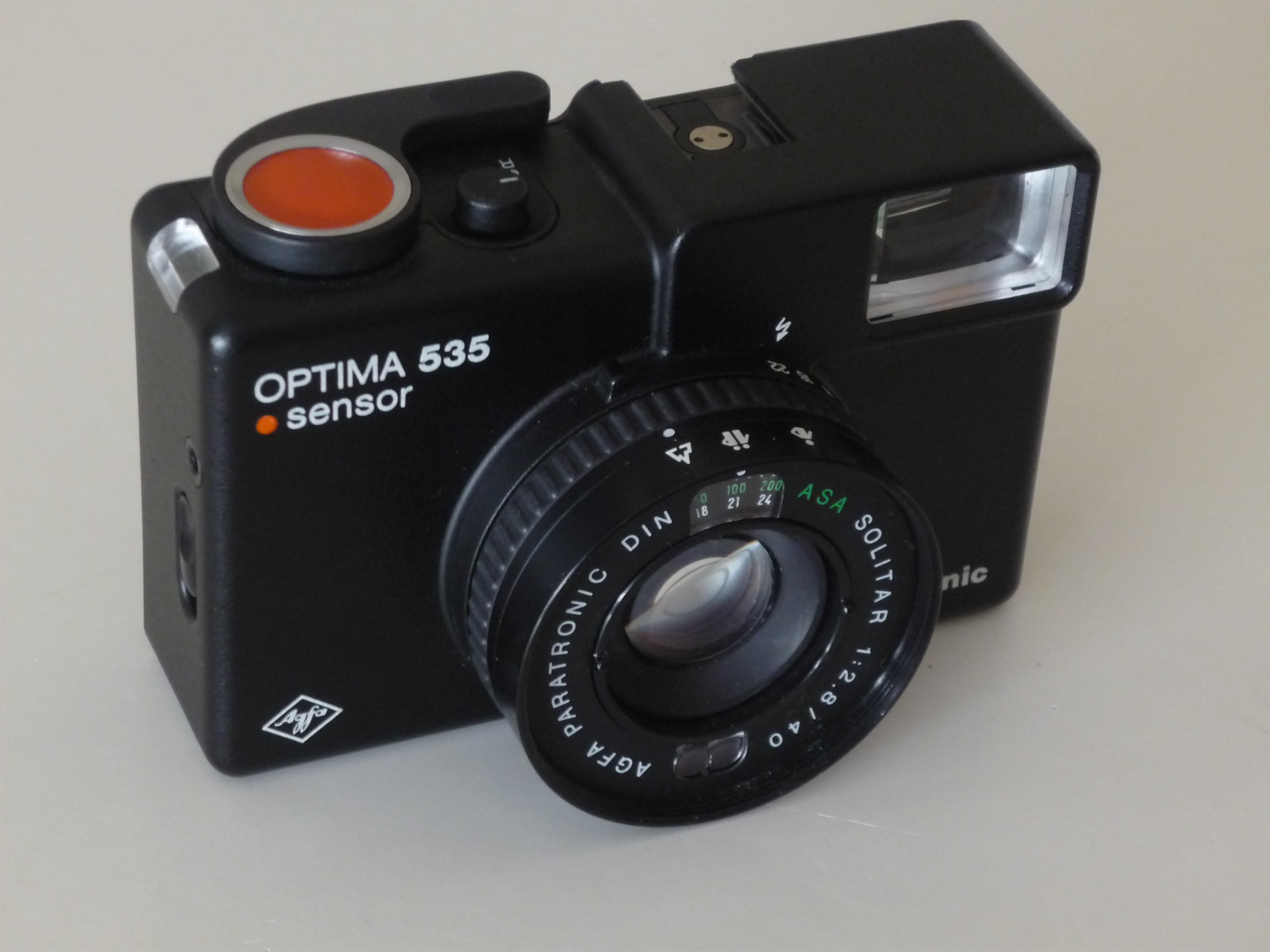 The Agfa Optima 535 Sensor